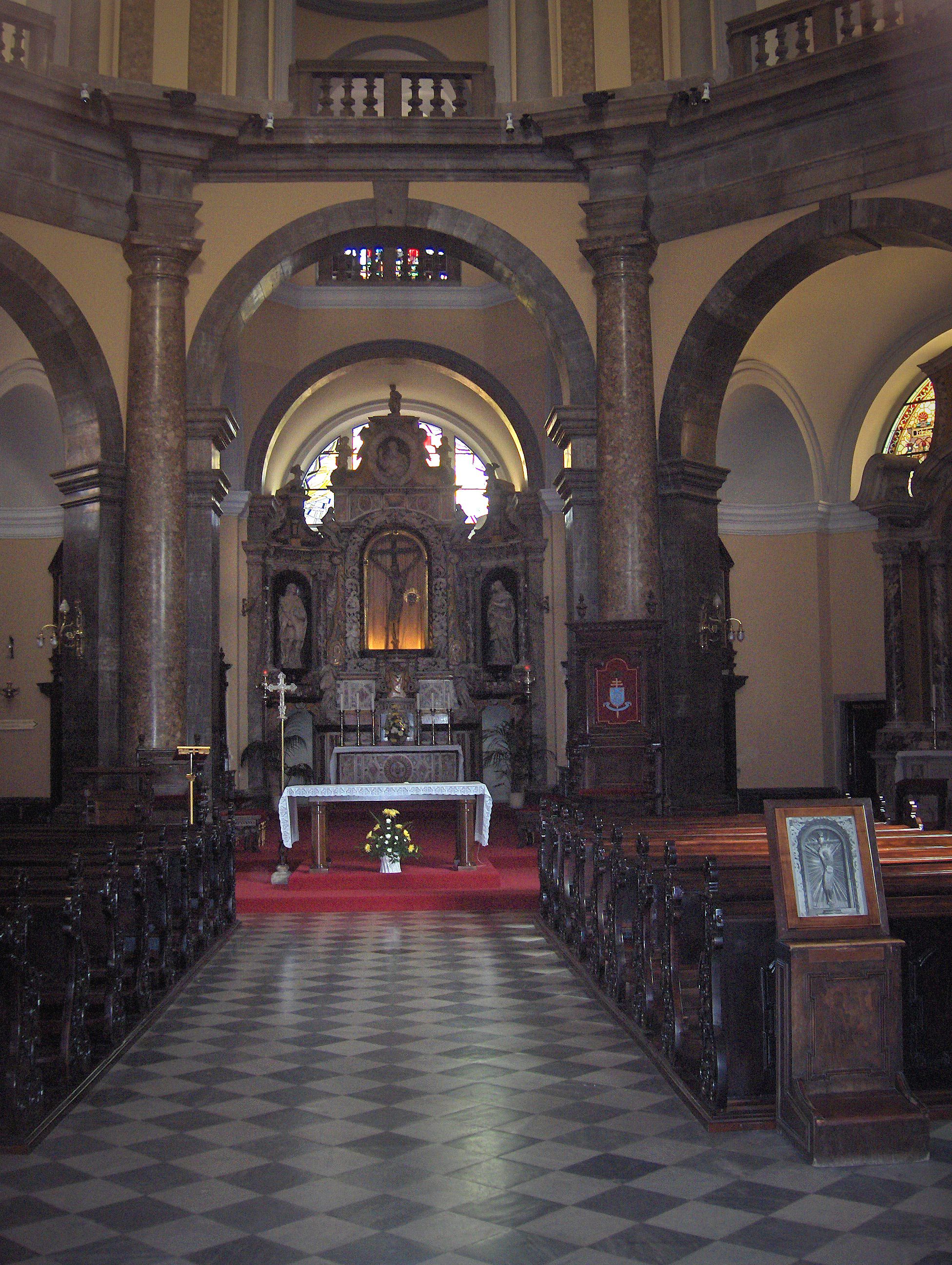 Nave and main altar; Saint Vitus Cathedral; Rijeka, Croatia